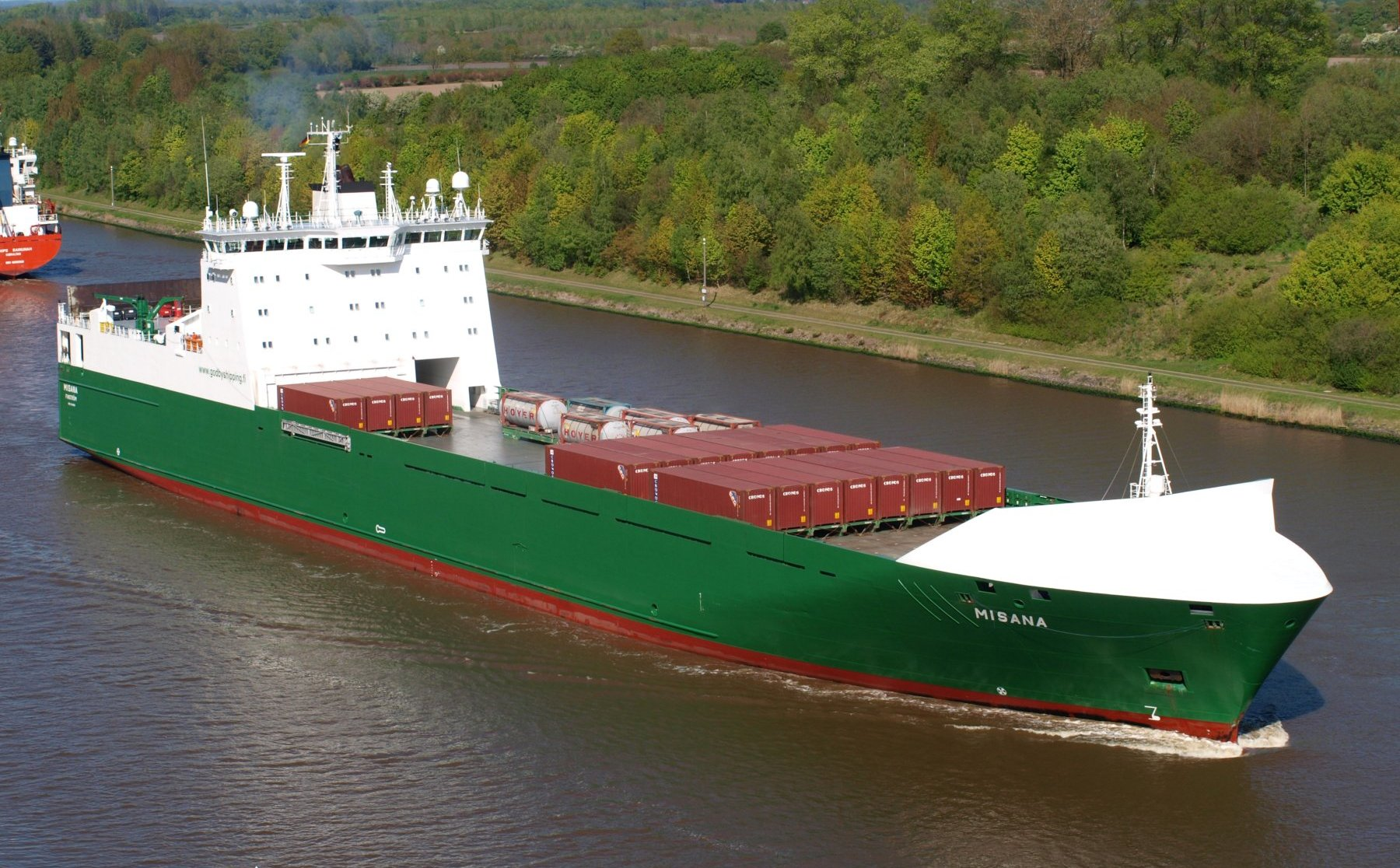 RoRo ship Misana (IMO 9348936) built at J.J. Sietas Schiffswerft, Hamburg-Neuenfelde (Sietas type 175, yard № 1281, launched: 11-08-2007, delivered: 19-10-2007) for Oy Trailer-Link Ab, Finström (subsidiary of Godby Shipping Ab); photo by Jens Dohrn, Kiel Canal, 01-05-2011.